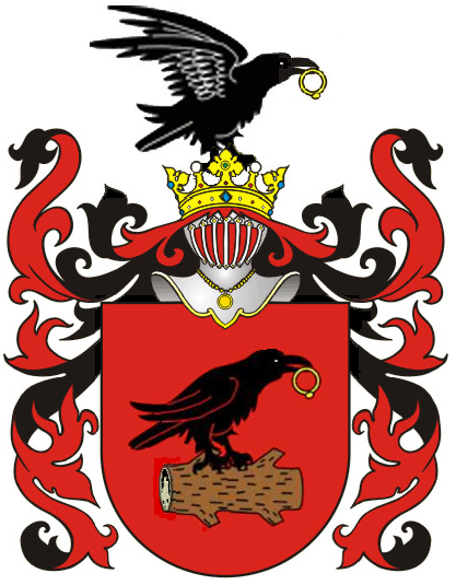 Alternative Korwin coat of arms (Herb Korwin). Based in black-white illustrations of Zygmunt Gloger’s Encyclopedia of the Ancient Poland sometimes considered as a variation (Herb Korwin II also Korwin III). The crest is a raven with its wings extended for flight, holding a ring in its beak and facing left (instead of three ostrich feathers of usual Herb Korwin). Escutcheon (all the drawing inside) and Polish nobleman crown and helmet: Derivative of Tadeusz Gajl’s work Image:Herb Korwin.jpg. Mantling: painted by me in red-black, like T. Gajl's work Image:Herb Kopacz.jpg. Crest: Derivative of Tadeusz Gajl's work Image:Herb Slepowron.jpg (the image facing to the left of the shield).